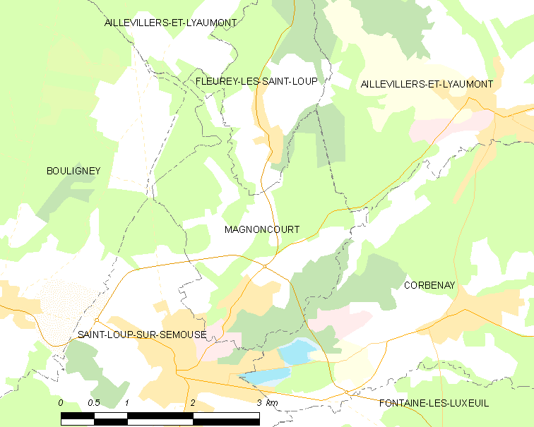 Map of French municipality